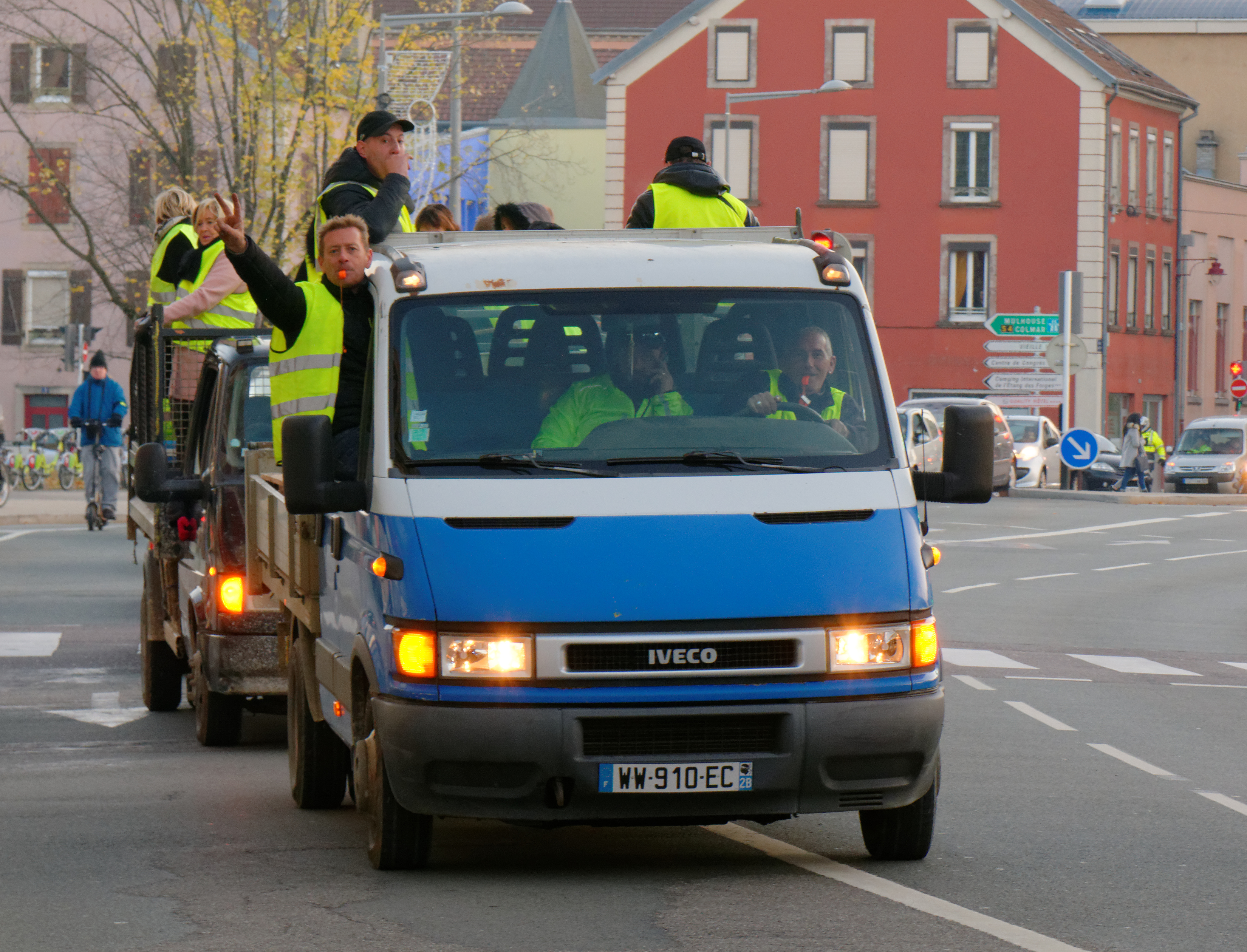 Personality rights warningAlthough this work is freely licensed or in the public domain, the person(s) shown may have rights that legally restrict certain re-uses unless those depicted consent to such uses. In these cases, a model release or other evidence of consent could protect you from infringement claims.